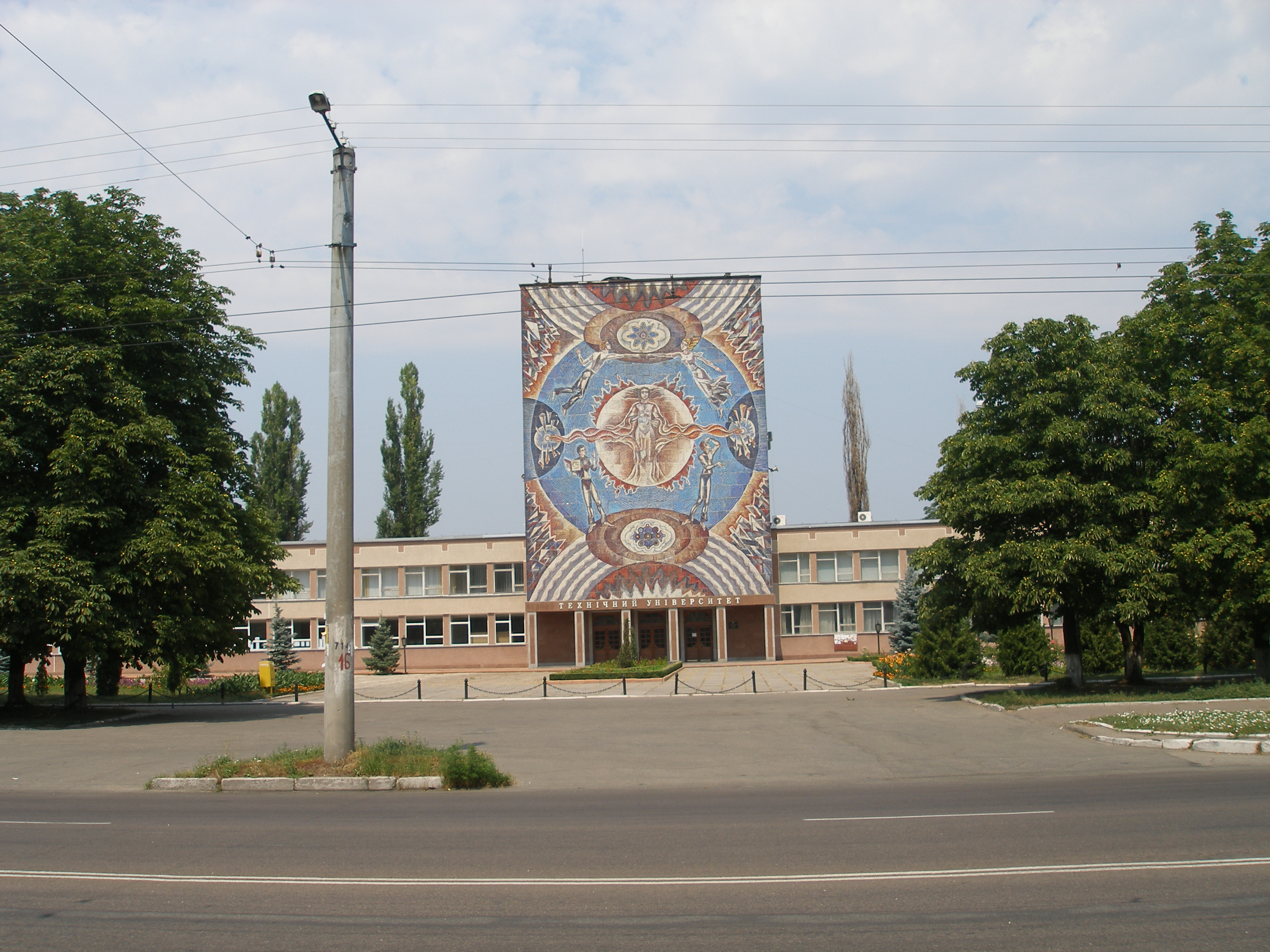 Kirovohrad National Technical University